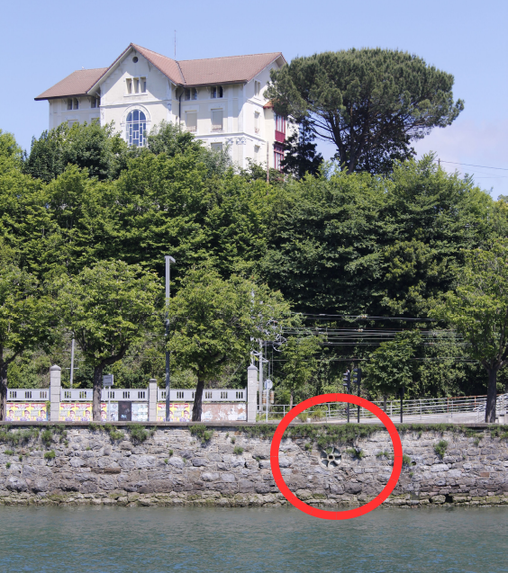 Hydraulic turbine of the old tidal mill Errota Txiki located in Amara. Currently embedded in the Urumea river wall